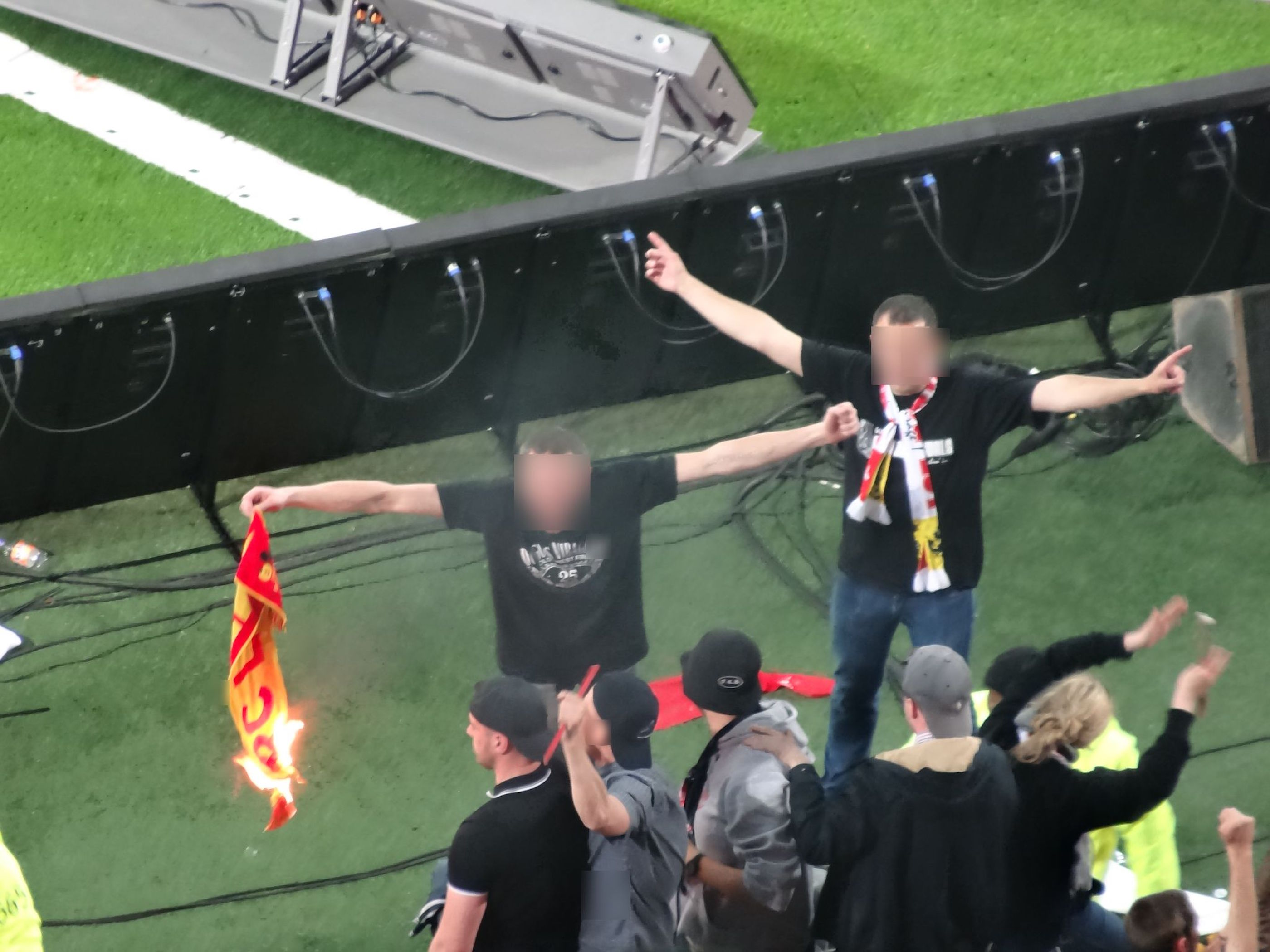 Lille LOSC supporter